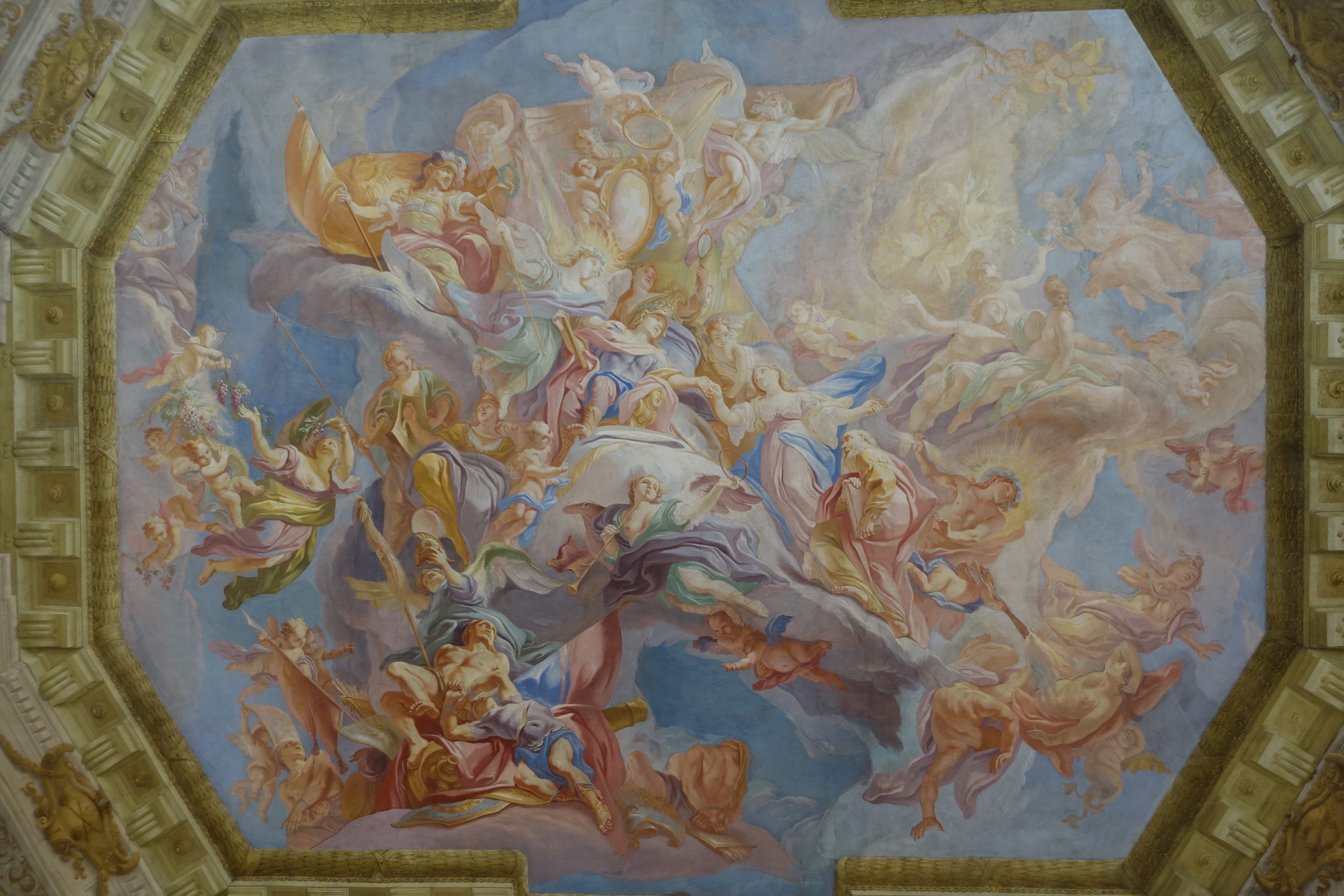 Interior of Belvedere Palace Vienna Austria